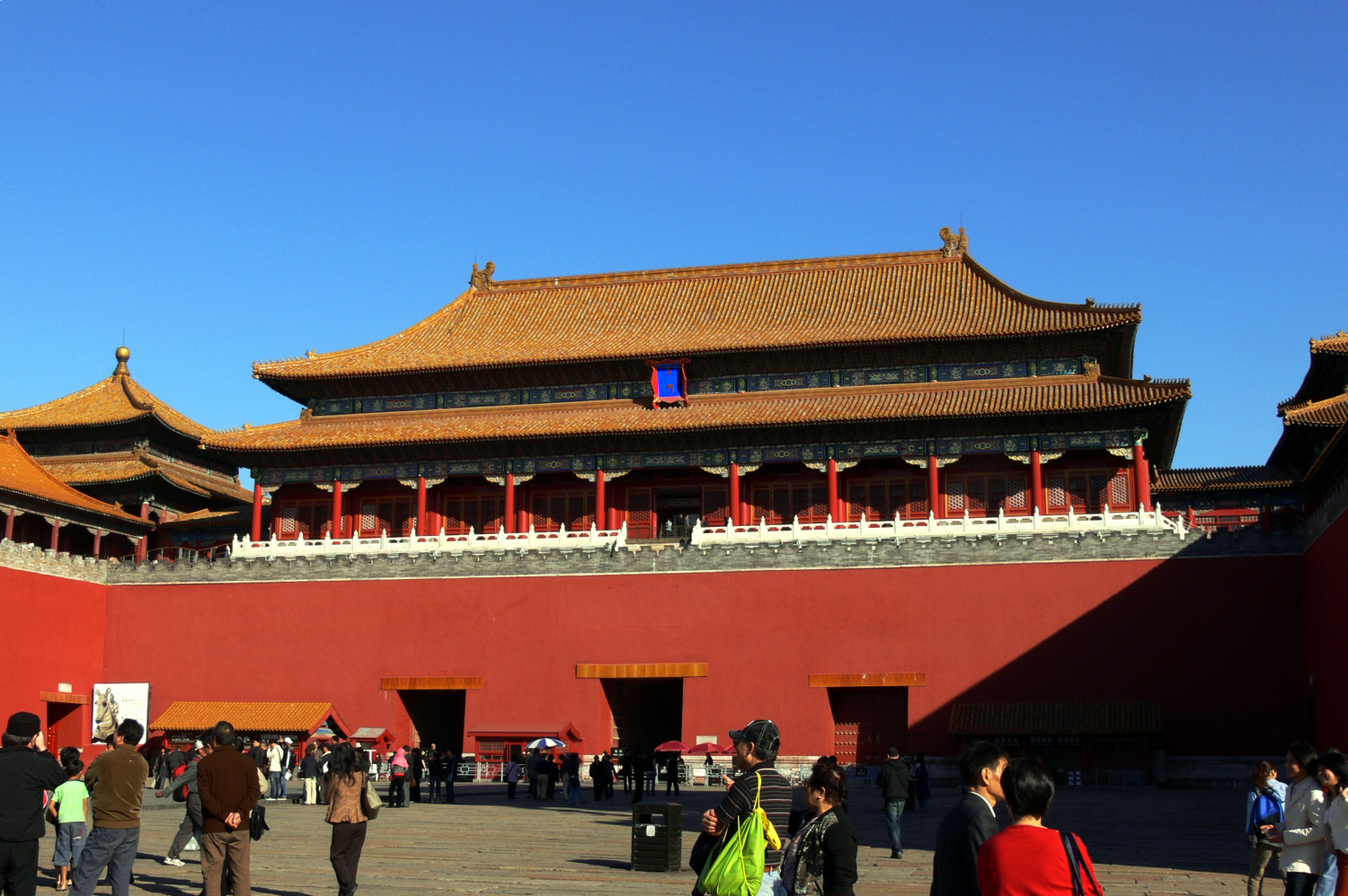 (view N) Meridan Gate, Imperial Palace, Beijing